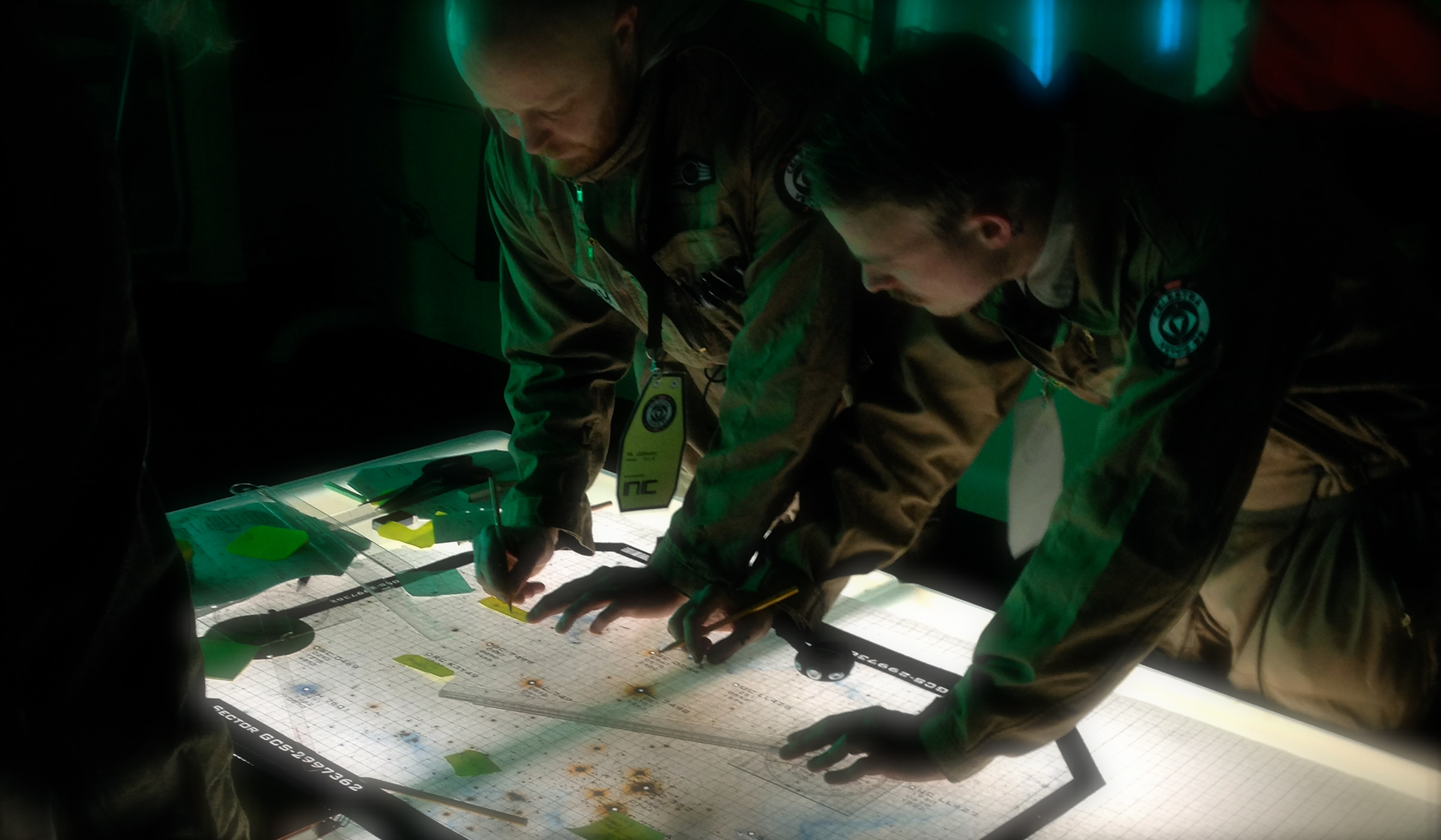 The navigations table from the Battlestar Galactica inspired larp The Monitor Celestra.